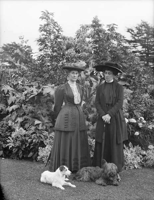 Countess Bessborough and Princess Marie Louise of Schleswig-Holstein (granddaughter of Queen Victoria), and two canine companions. Date: 31 August 1910 NLI Ref.: P_WP_2200